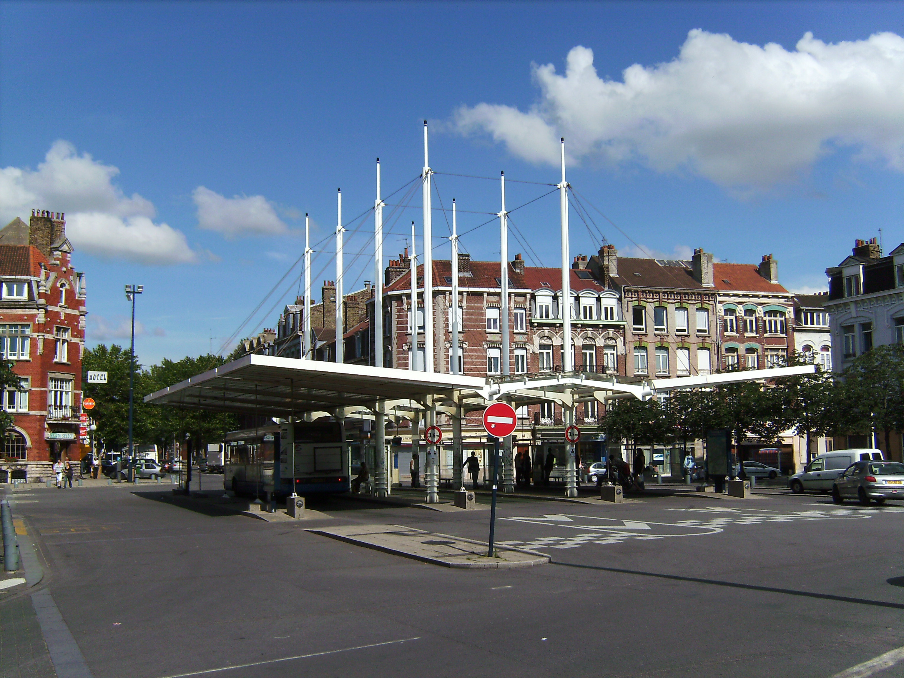 Bus station in Dunkirk, France.